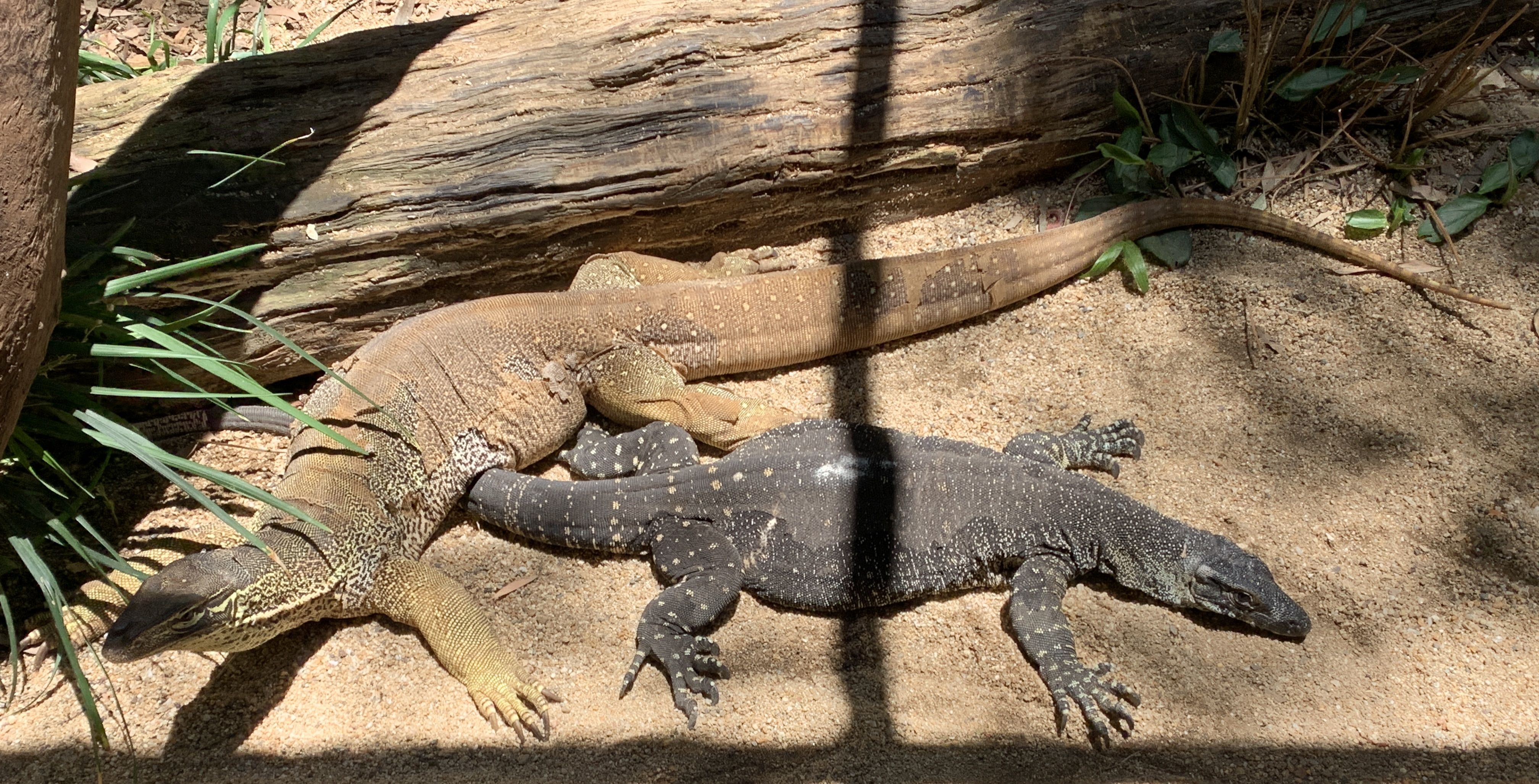 Argus Monitor (left), Lace Monitor (right). Taken at the Kuranda Koala Gardens in Queensland, Australia